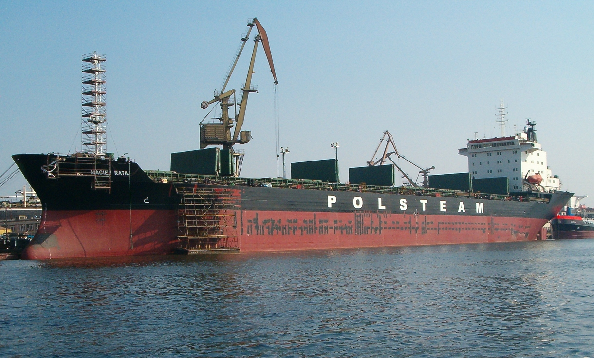 Bulk carrier Maciej Rataj in Remontowa Shiprepair Yard in Gdansk, Poland.